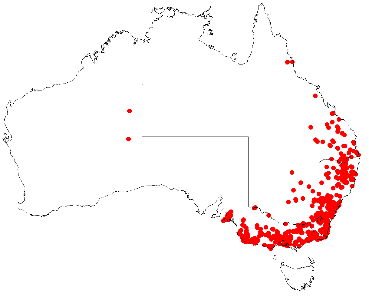 Australian distribution of Amyema pendula based on download from Australasian Virtual Herbarium May 9, 2018